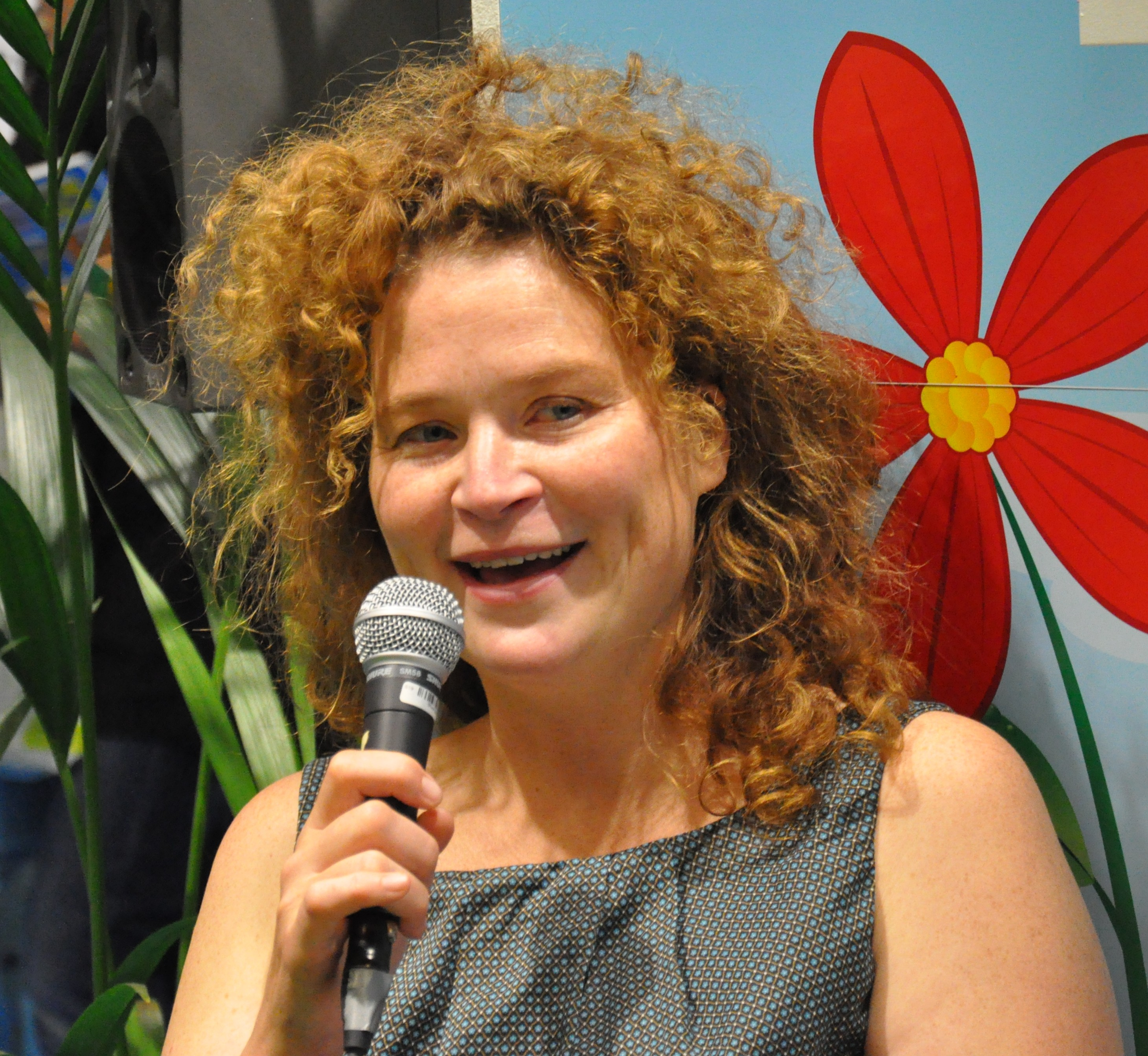 Stina Wirsén på Bokmässan i Göteborg 2011